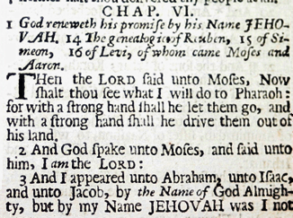 Authorized King James Version / Poster's own original copy of 1671 KJV; released to public domain without copyright; title page and supporting pictures available upon request to .